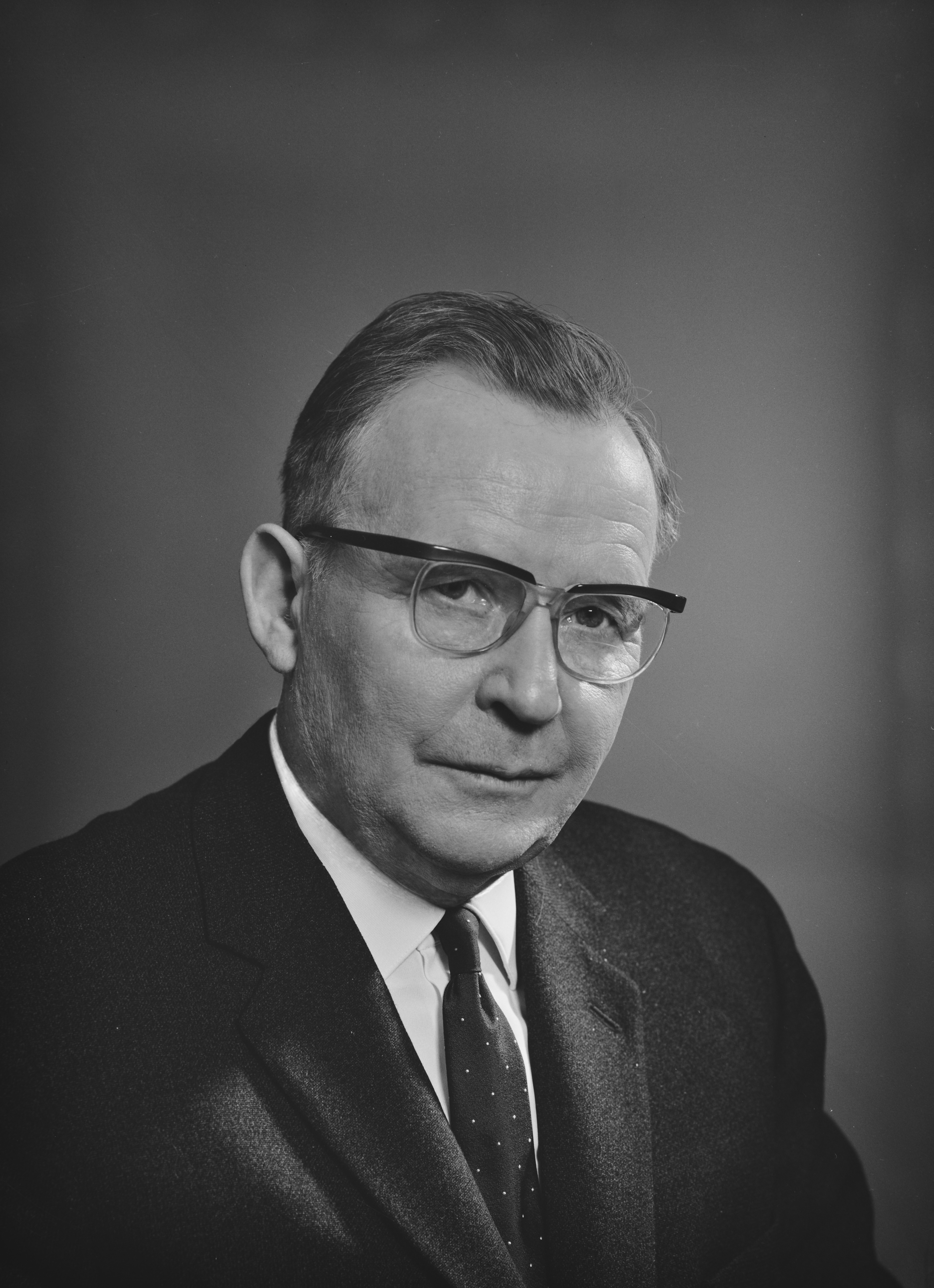 Photograph of the Finnish politician Wiljam Sarjala (1901–1977)